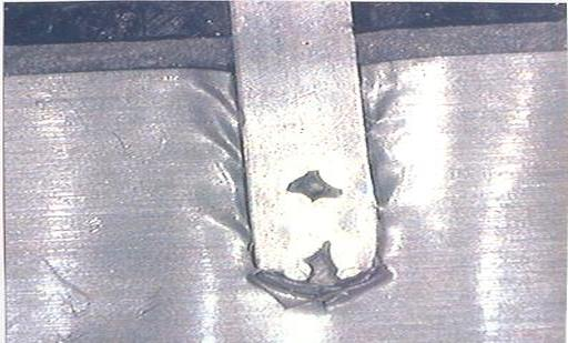 Mechanical pressure onto terminal during manual inserting causes this jaggy cathode foil which result in a loose connection